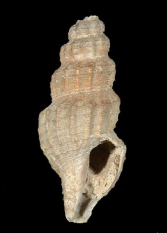 Pleurotomella circumvoluta (R. B. Watson, 1881); family Raphitomidae; holotype at the Smithsonian Institution